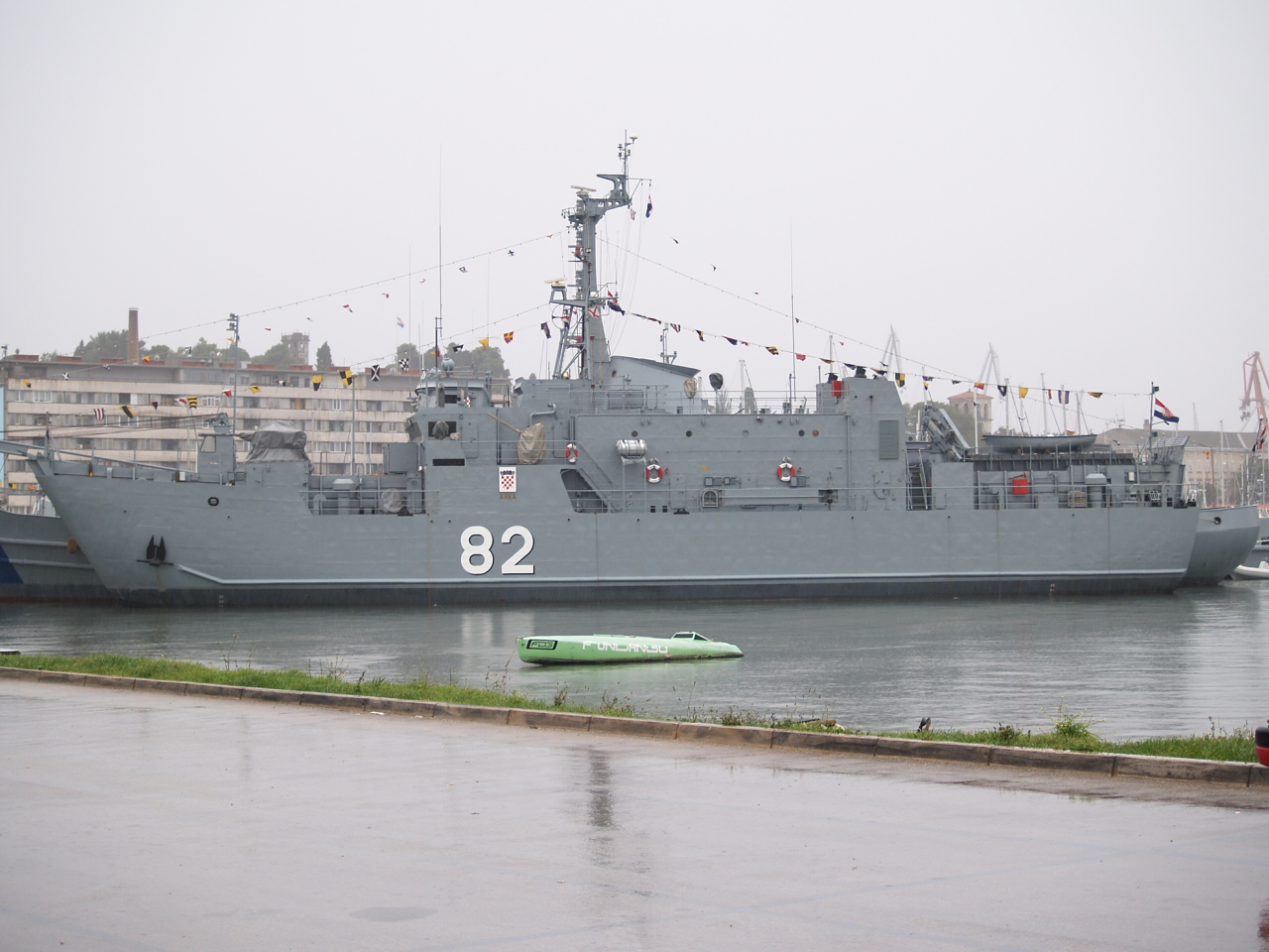 Desant boat/mine layer DBM-82 Krka (Croatian war navy)